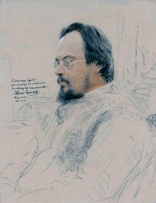 Portrait of writer Yevgeny Nikolayevich Chirikov. Coloured chalks on paper. 41 × 34 cm. Private collection.